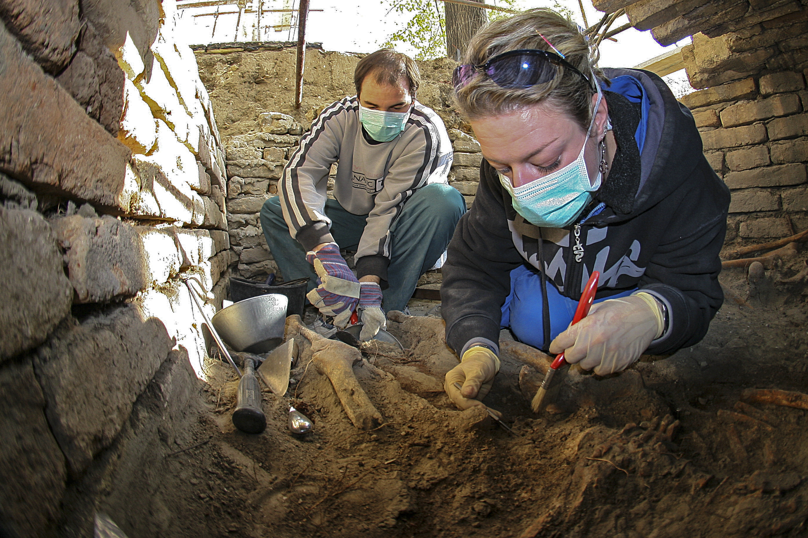 Anthropologists at work